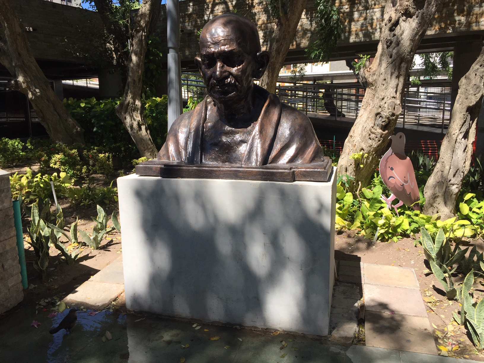 Sculpture of Mahatma Gandhi at plaza de la Paz, Barranquilla, Colombia.